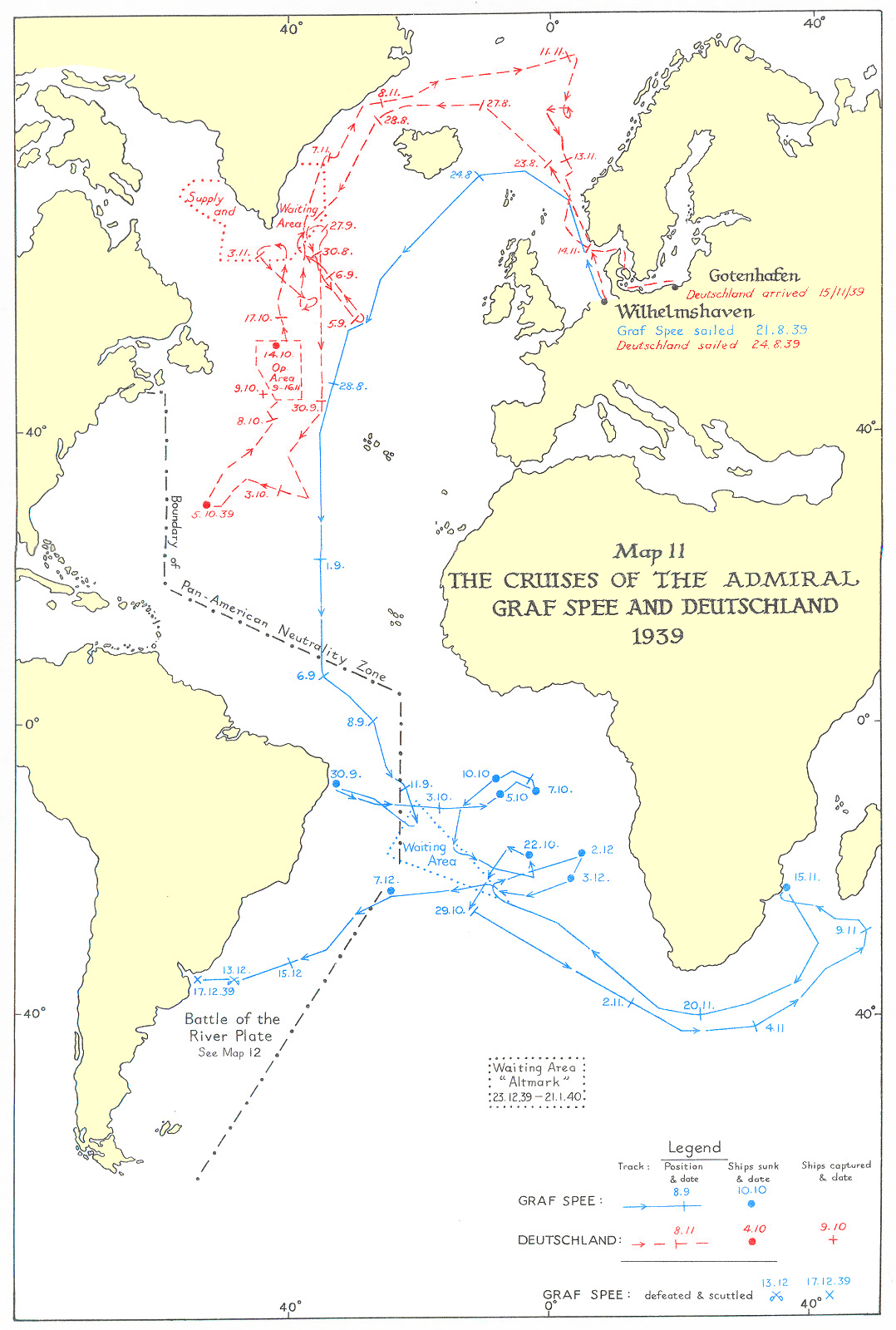 The Cruises of the Admiral Graf Spee and Deutschland, 1939